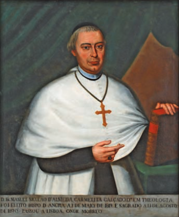 D. Friar Manuel Nicolau de Almeida (1761-1825), bishop of Angra.